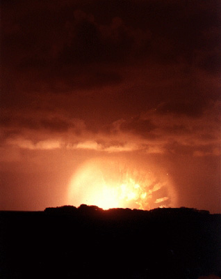 Operation Hardtack I - Cactus shot.